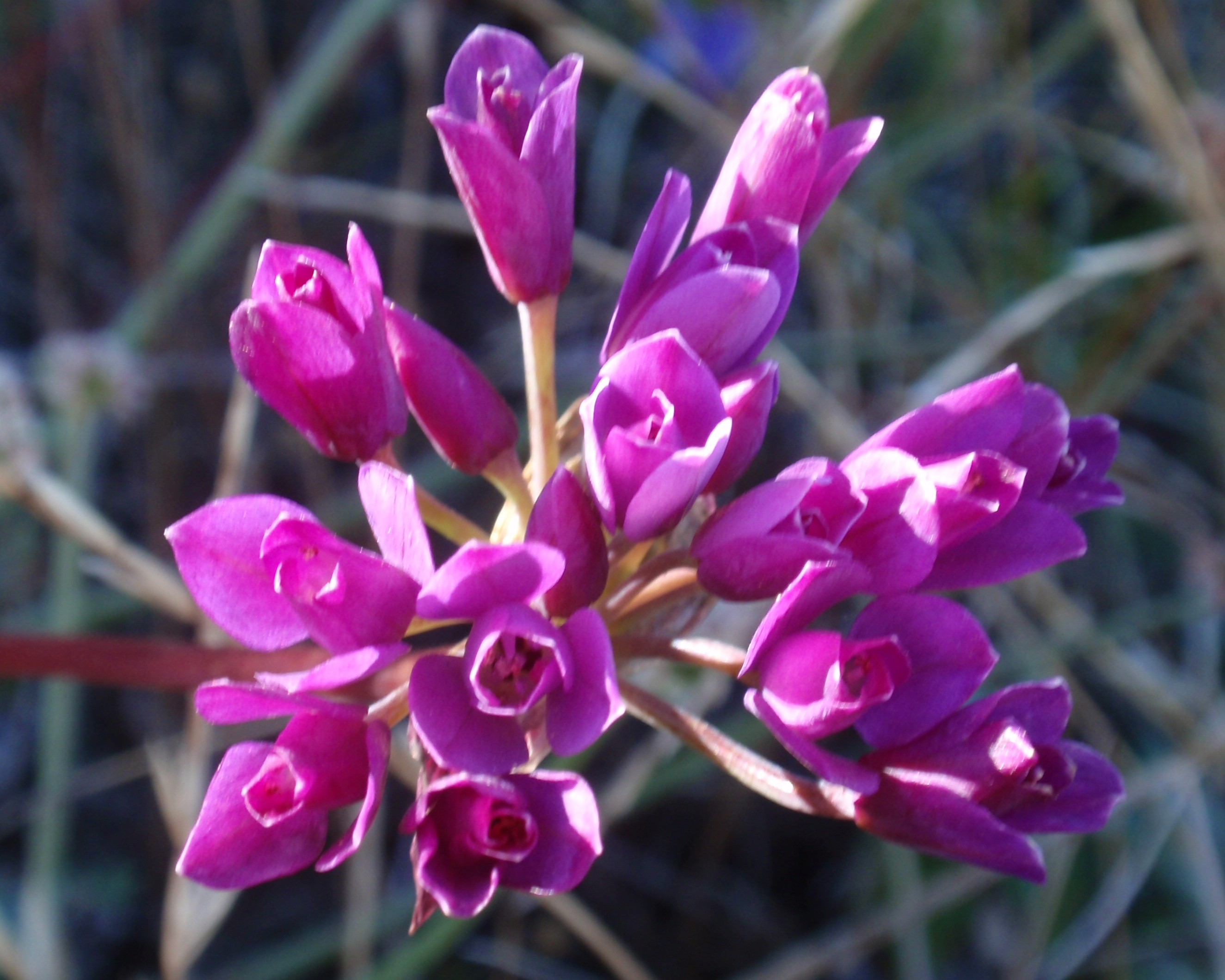 Allium dichlamydeum in the Presidio, San Francisco, California, USA